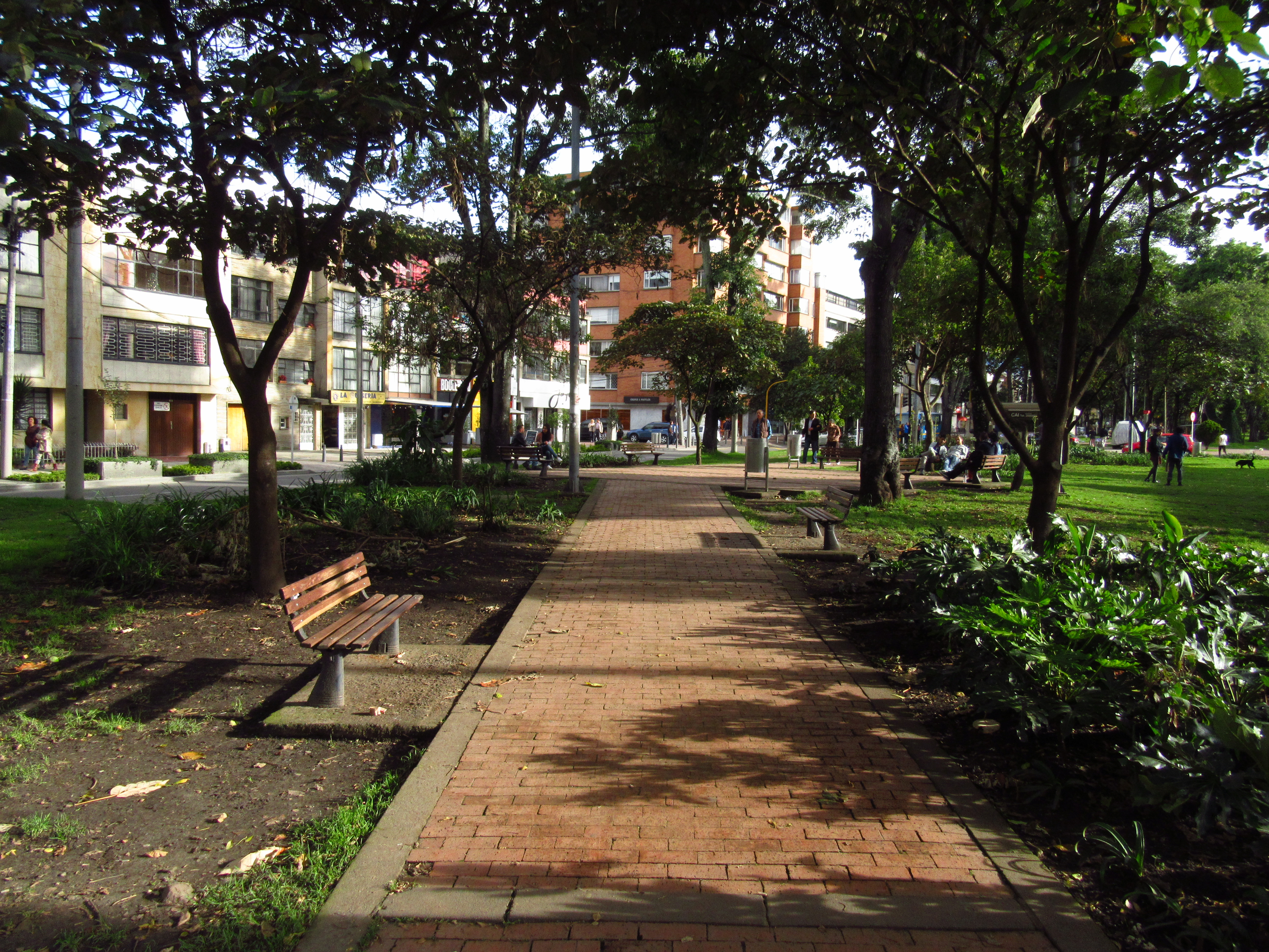 Bogotá